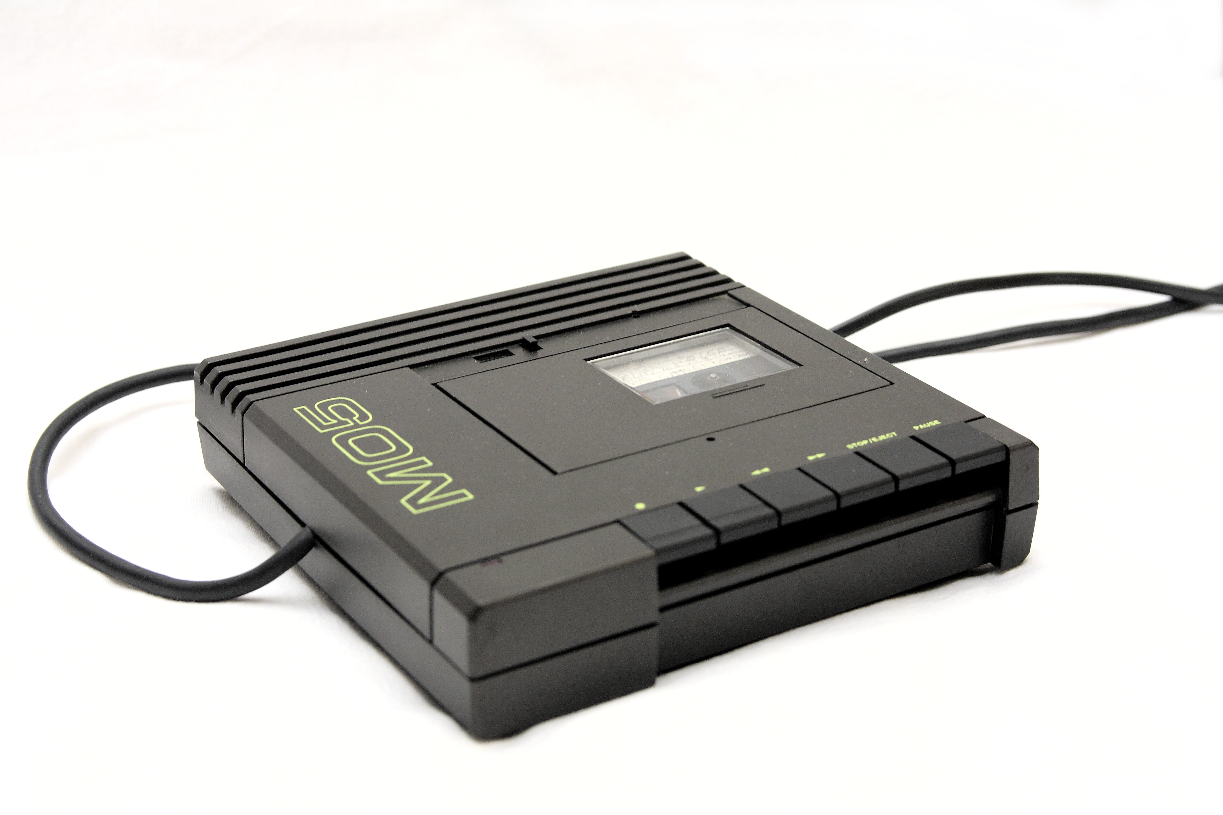 MO5 Tape reader/recorder (memory unit).